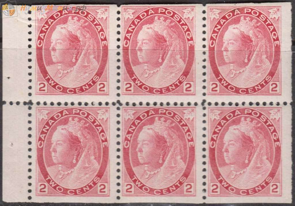 Canada 1900 booklet pane Mi H Bl. 1 of 6 Mi 65 II E and F (queen Victoria)